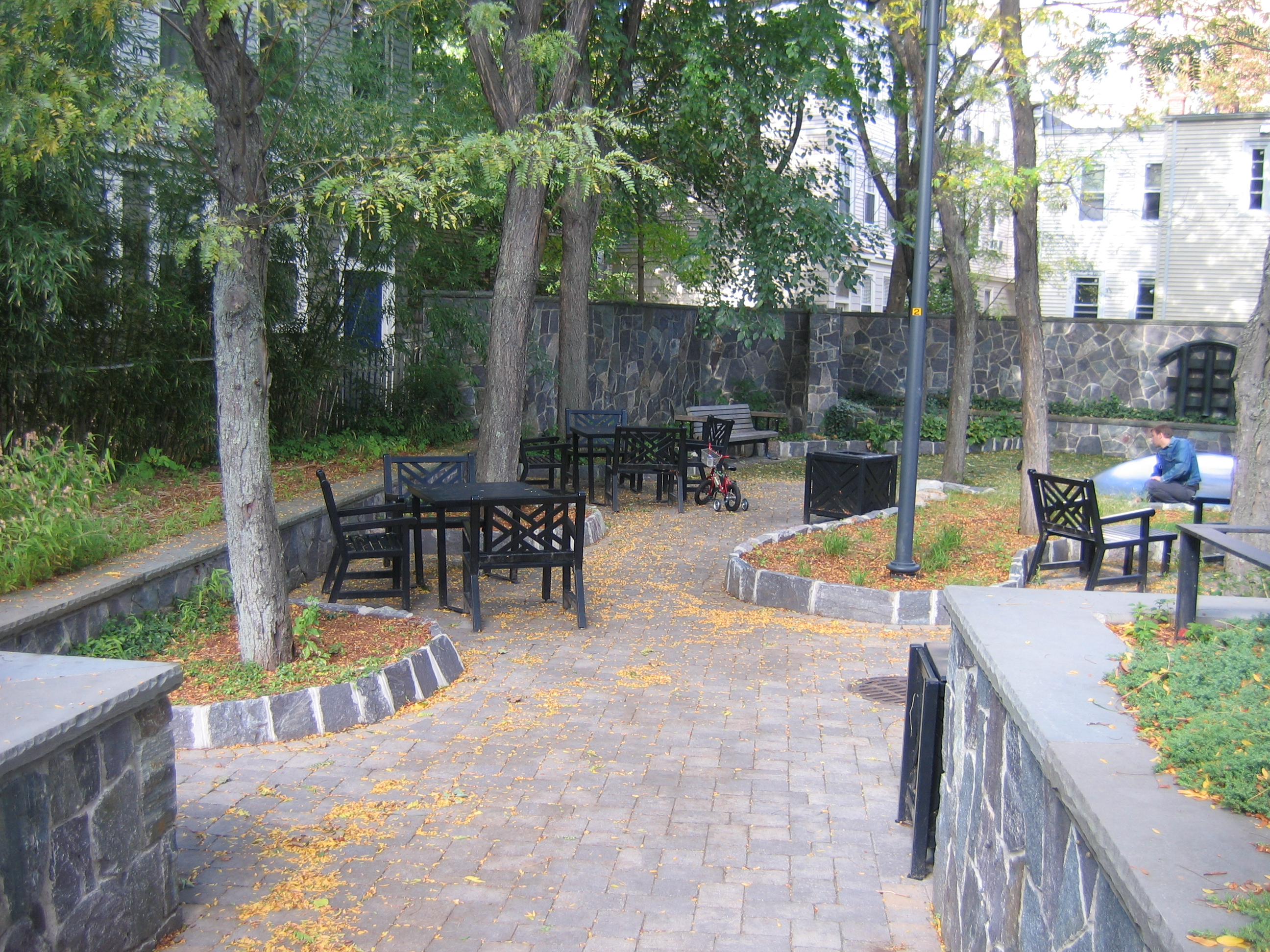 Public park